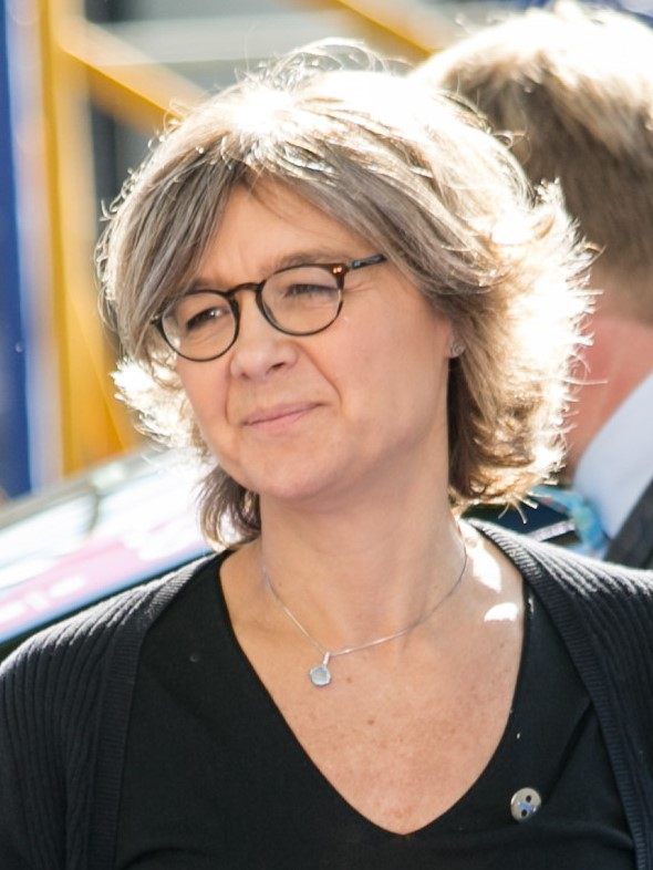 Isabel García Tejerina 2017